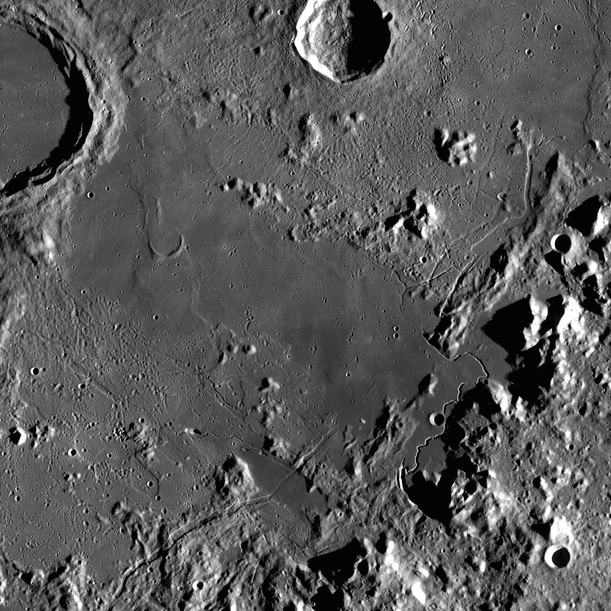 Palus Putredinis on the Moon. Mosaic of photos by Lunar Reconnaissance Orbiter, made with Wide Angle Camera. Size of the image is 250×250 km, north is up.